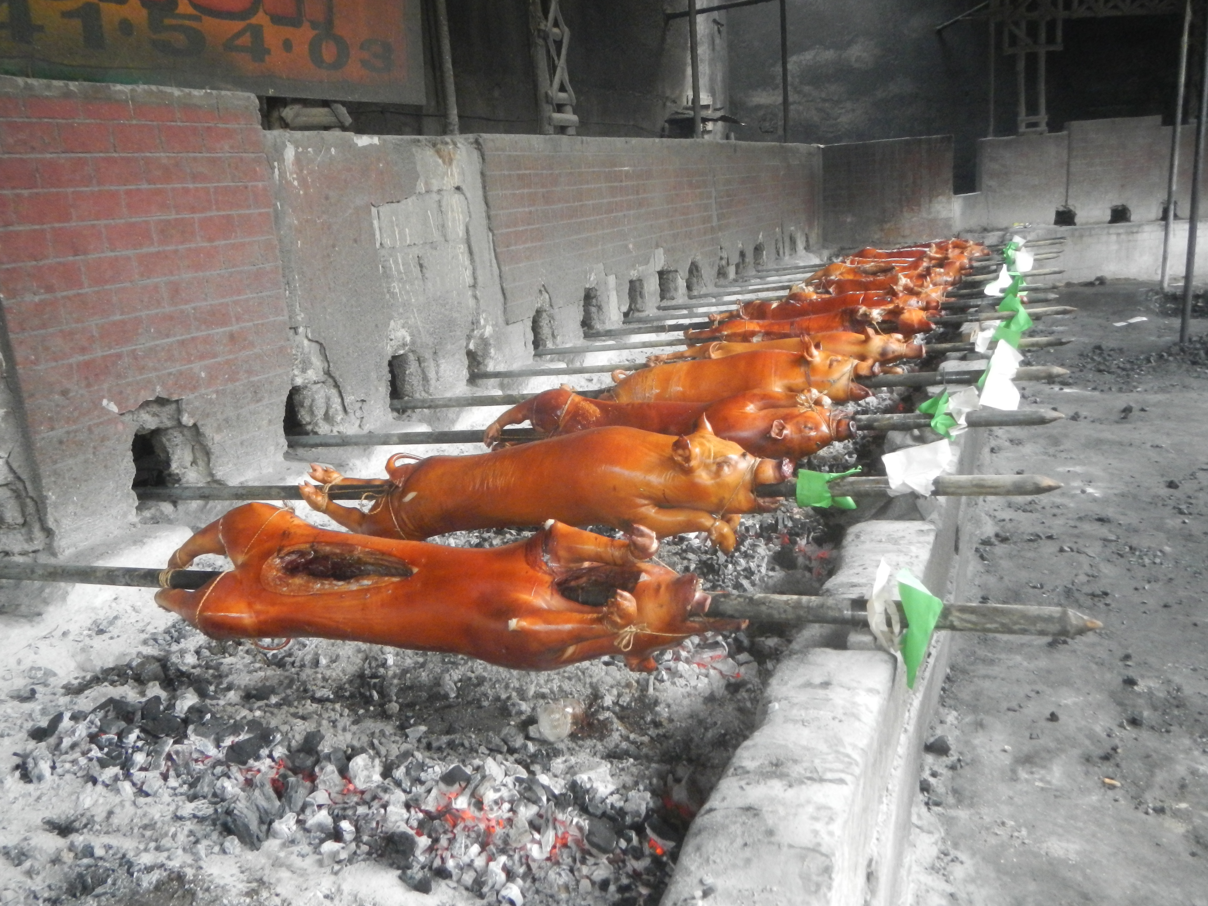 Paang Bundok, La Loma, Quezon City La Loma Lechón La Loma Cockpit (Paang Bundok, Quezon City) Mila's Lechon, Baboy, Baka Restaurant & Catering Services (Paang Bundok, La Loma, Quezon City) List of barangays of Metro Manila, Legislative districts of Quezon City Districts 4, Barangays of Quezon City, Paang Bundok, La Loma, Quezon City 14.6278, 120.9886, Quezon City (Note: Judge Florentino Floro, the owner, to repeat, Donor Florentino Floro of all these photos hereby donate gratuitously, freely and unconditionally Judge Floro all these photos to and for Wikimedia Commons, exclusively, for public use of the public domain, and again without any condition whatsoever).